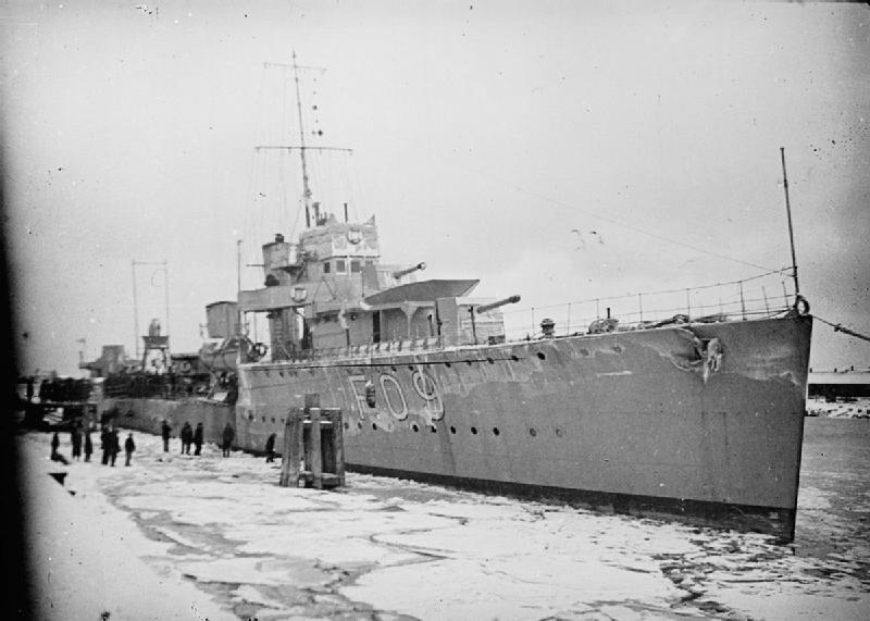 Photograph of the Royal Navy V class destroyer HMS Vega in a Russian port